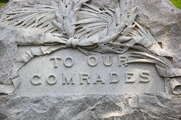 Closeup of the lower portion of the west face of the Spanish-American War Nurses Memorial in Section 21 at Arlington National Cemetery in Arlington, Virginia, in the United States. Nurses were first organized as a unit of the U.S. Army during the Spanish-American War. Many of the nurses who died in the war were interred in Section 21 at Arlington. In 1901, the Society of Spanish American War Nurses asked for and received permission to erect a memorial to nurses who died in the war at the cemetery. The memorial was dedicated on May 22, 1902. It consists of a rough, grey granite megalith which faces west. A Maltese cross -- the insignia of the Society -- is carved into the upper portion of the stone. Below it are a sheaf of palm leaves (indicating the tropical nature of the war) on which is placed a wreath of laurel leaves. Below is an inscription to "Our Comrades." On the rear of the memorial, the Maltese cross image is repeated. Below it, a dedicatory brass plaque is affixed. Although two graves (Ella Gillen and Samuel Fitz Gerald) to the west appear to be part of the memorial, they are not.